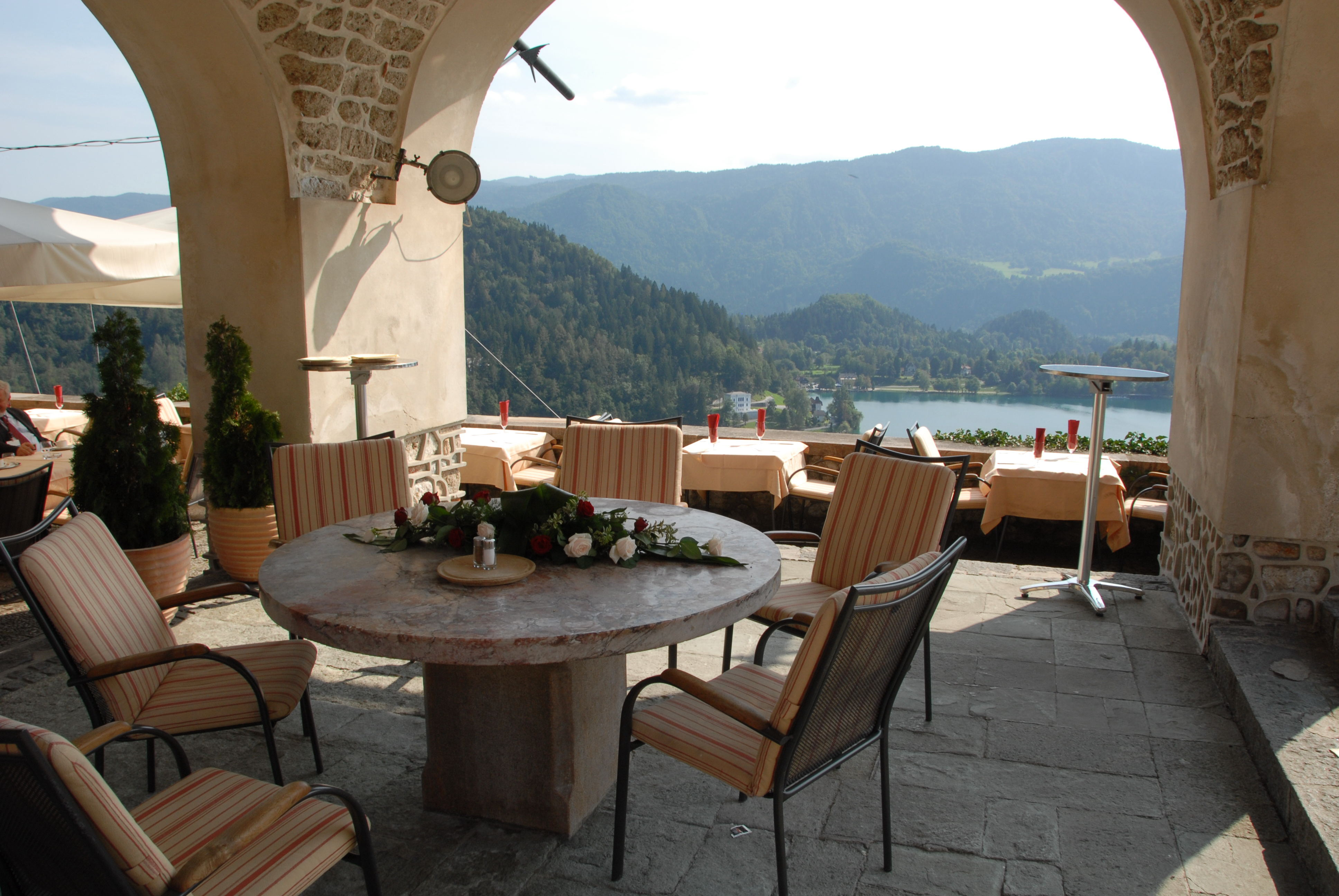 Round table in the upper inner ward of the Bled castle, Bled, Slovenia